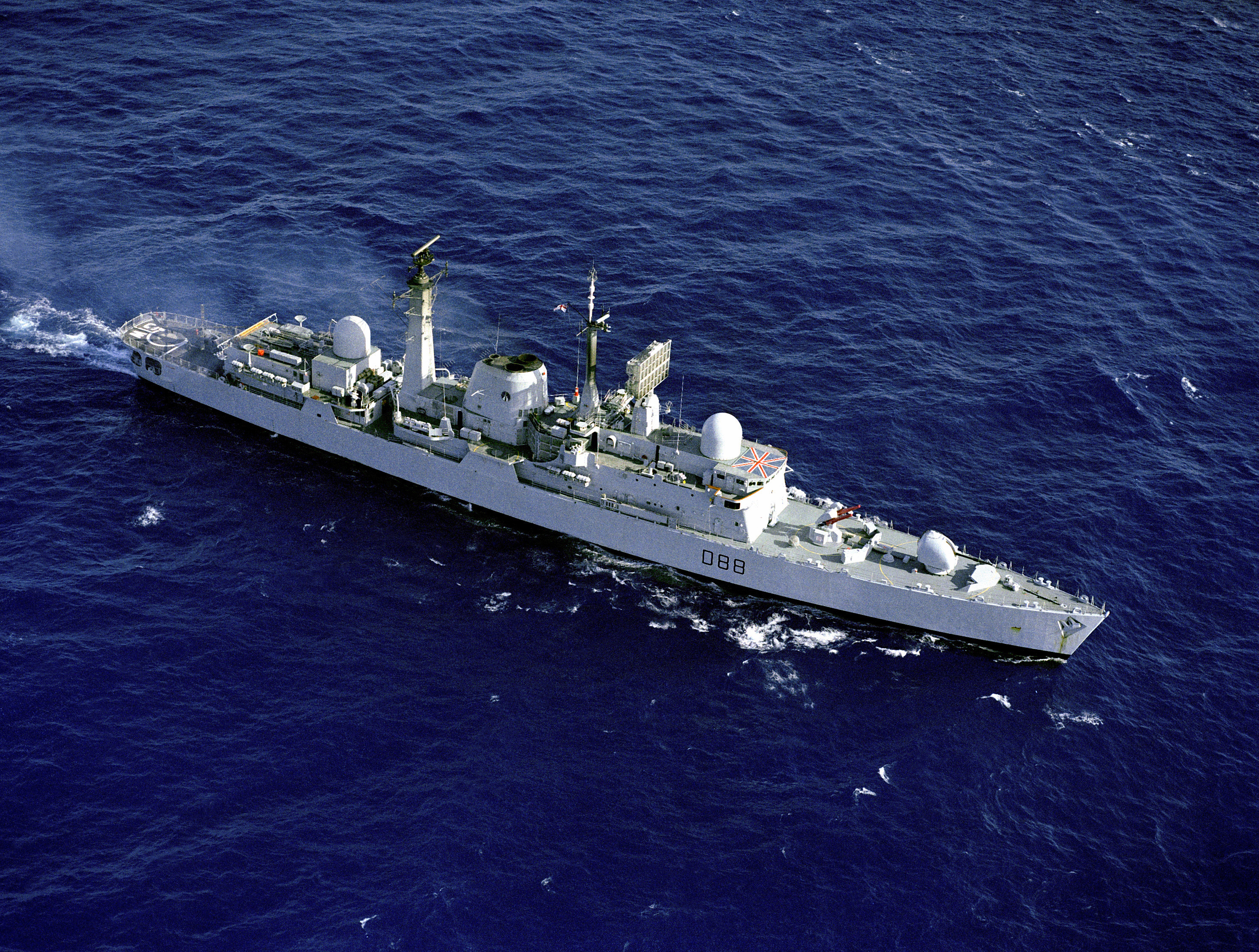 The British Royal Navy Type 42 class destroyer HMS Glasgow (D88) underway in the Mediterranean Sea during exercise Distant Drum, 19 May 1983.